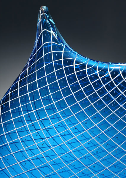 Example of a caneworking technique in blown glass called reticello. Created by David Patchen